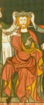 A depiction of the coronation of King Boso of Provence